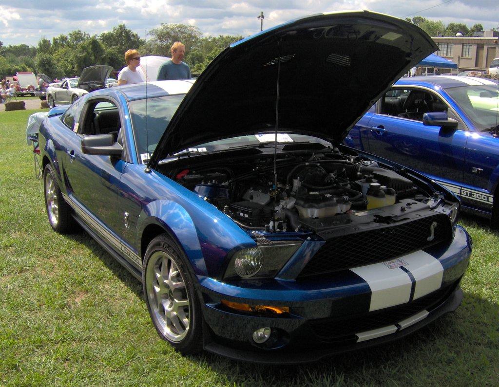 2007 Ford Shelby GT500